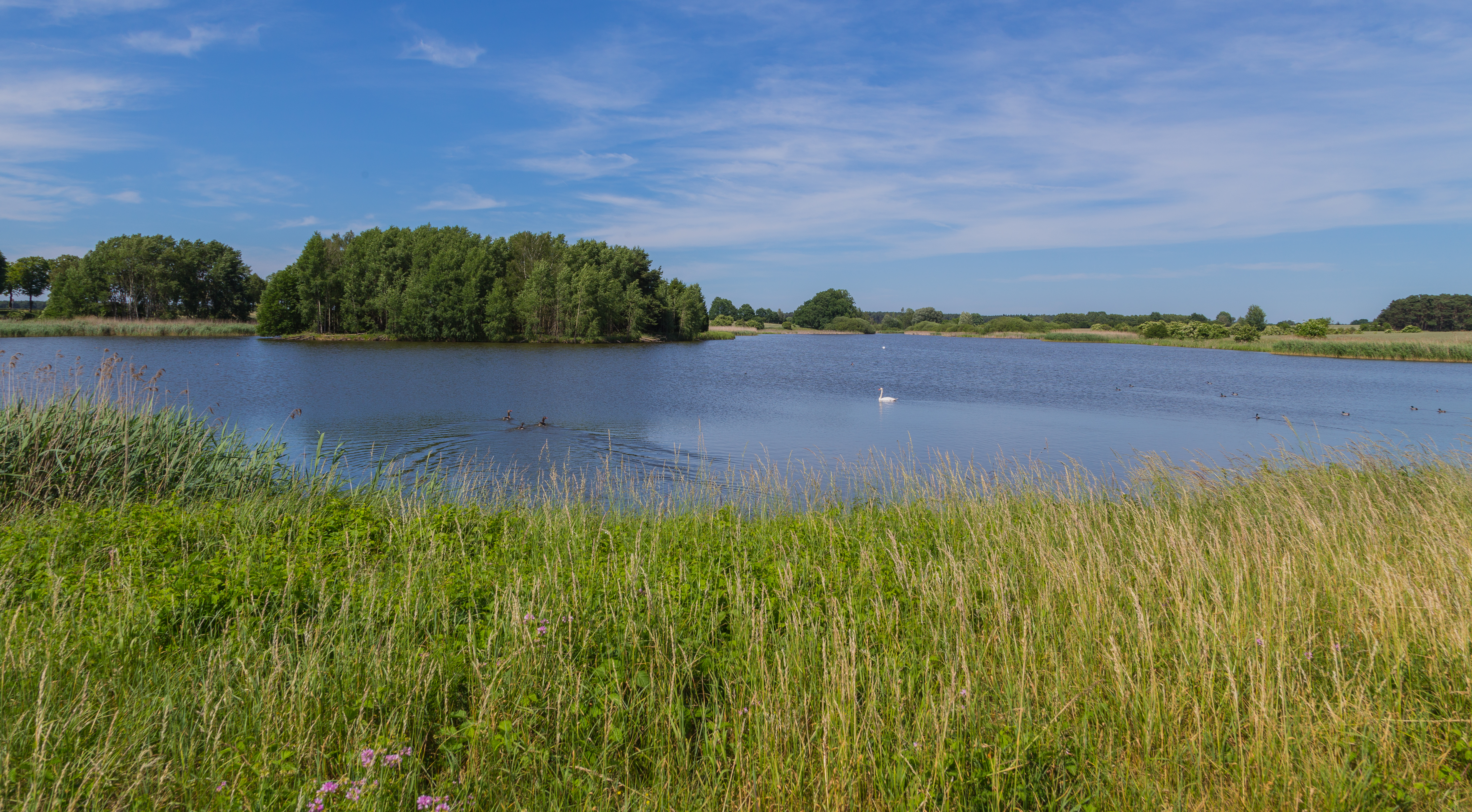 Lake in the nature reserve Friedland Valley (Friedländer Tal ) near Friedland, Landkreis Oder-Spree, Brandenburg, Germany.